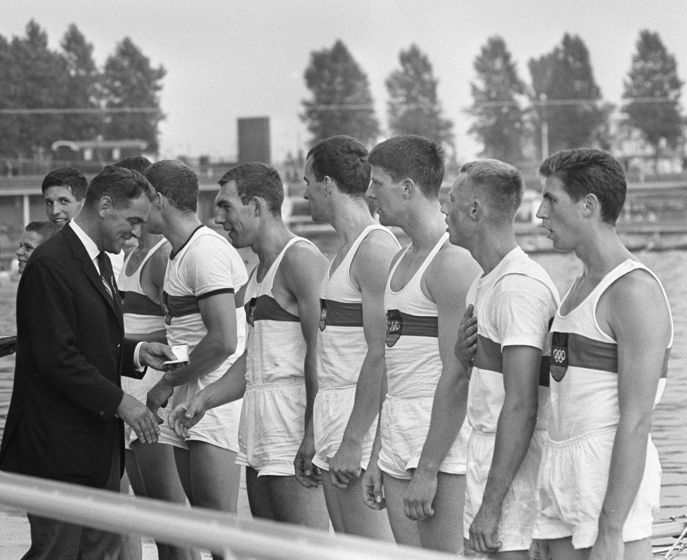 European Rowing Championships Bosbaan, German eight (from right): Horst Meyer, Jürgen Plagemann, Jürgen Schröder, Klaus Behrens, Hans-Jürgen Wallbrecht, Karl-Heinrich von Groddeck, Klaus Bittner, Klaus Aeffke, and Thomas Ahrens